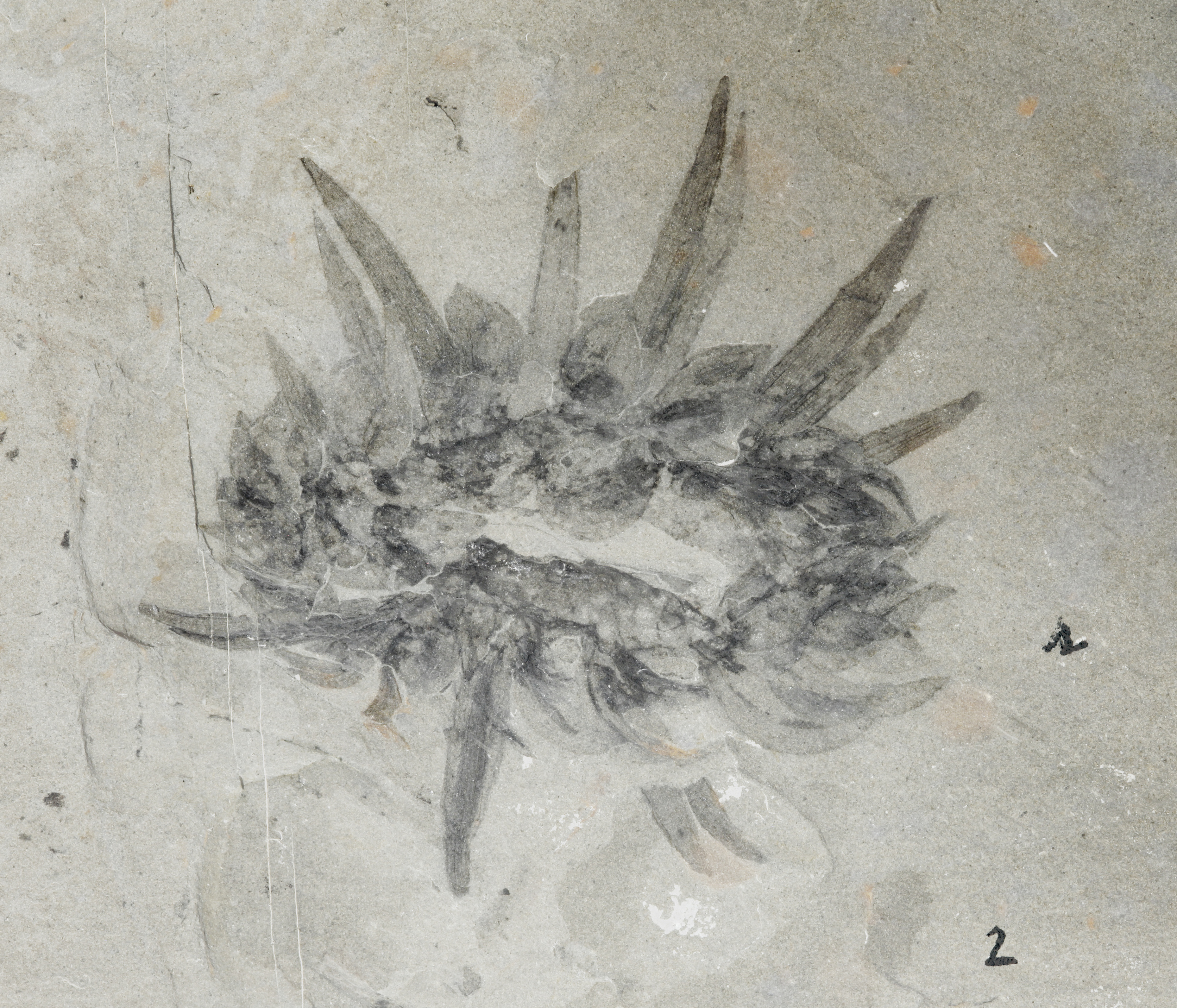 Wiwaxia corrugata from the Burgess Shale. ROM 61151 (Fig. 3G) – Mature specimen, with incipient spines, and partial scleritome exposing underlying tissue